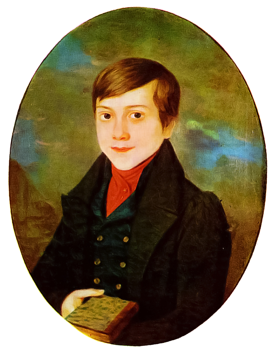 Child portrait of Ignác Semmelweis from 1830. Oil painting by Lénart Landau (1790-1868), a painter from Pest.